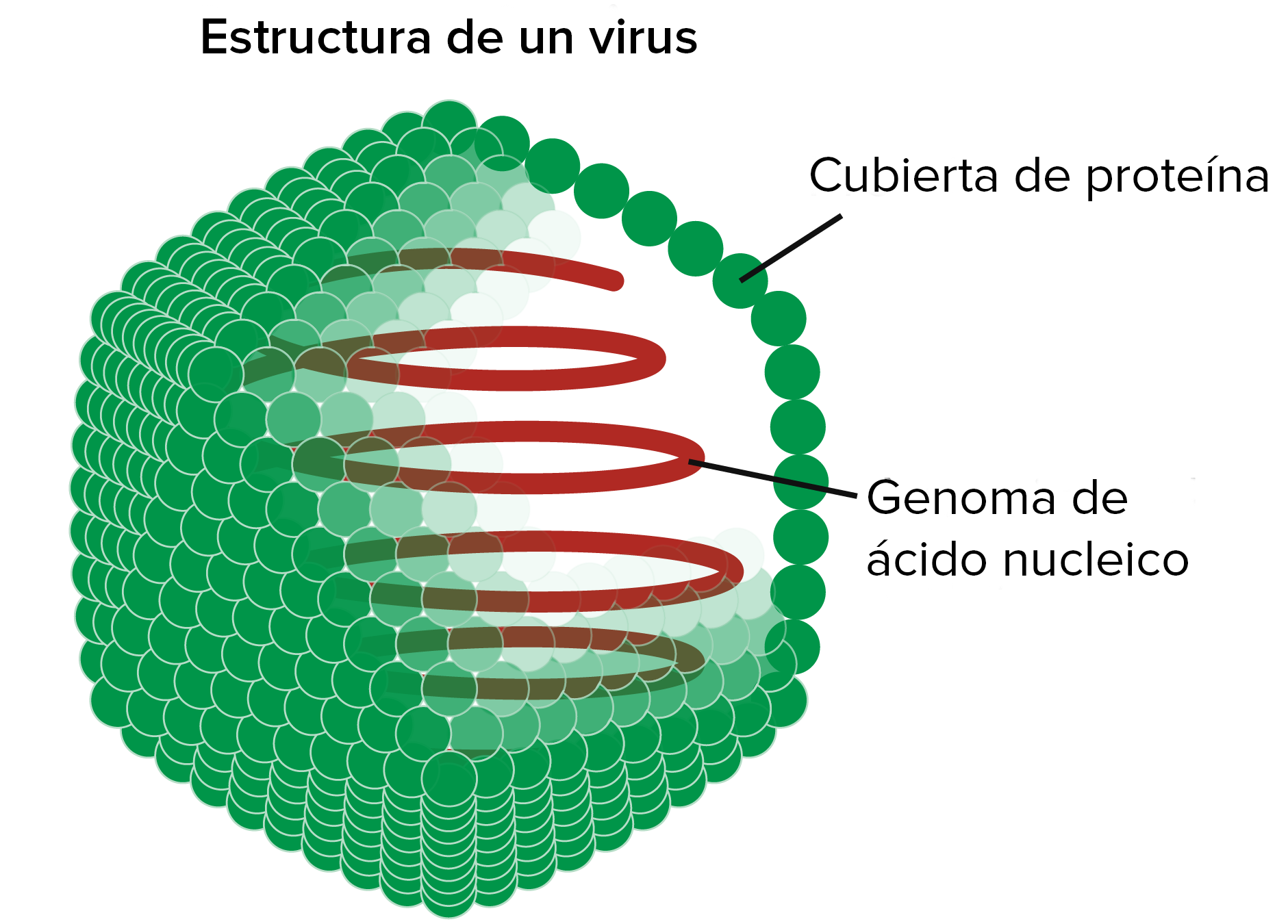 Structure of a virus